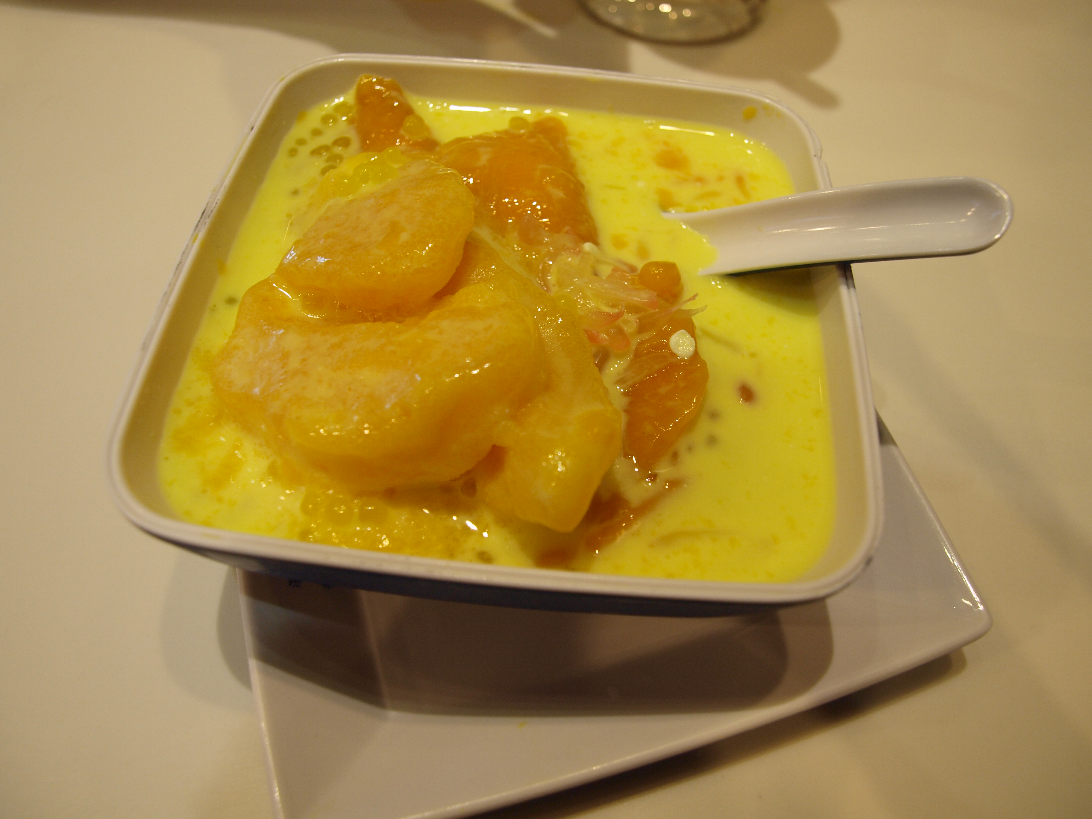 I took this photo when I ate a bowl of mango pomelo sago in Hong Kong.